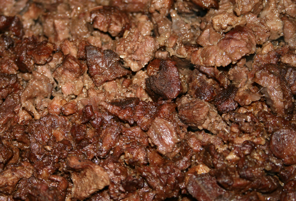 A closeup of kavurma; a traditional Turkish meal made of meat... it is traditional to serve it during Eid-al-Adha (Kurban Bayramı in Turkish); during this times it is made from the meat of the sacrificed animal (Eid-al-Adha is a festival during which Muslims sacrifice an animal to God).